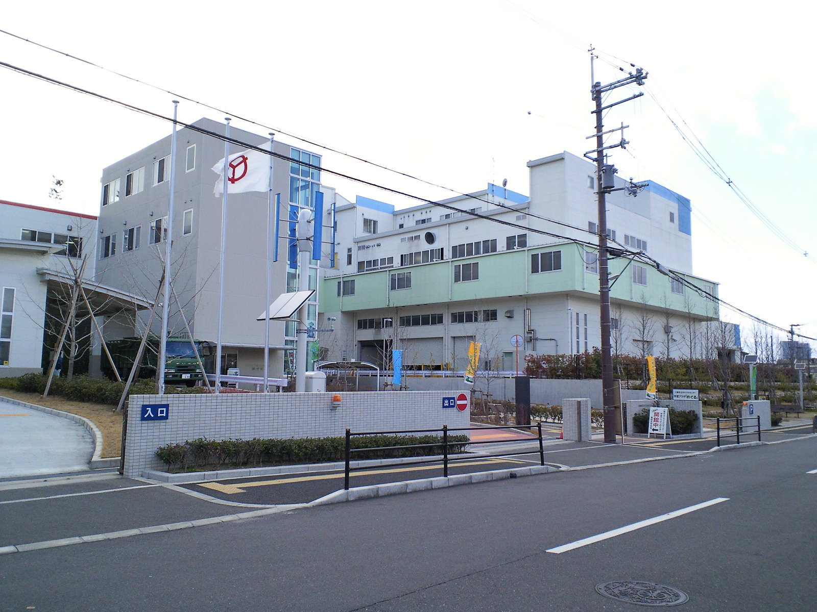 Yao Recycle Center, Yao, Osaka, Japan